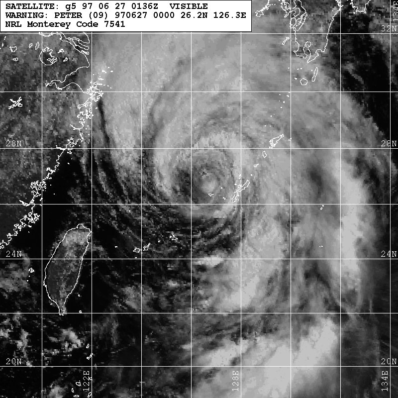 Typhoon Peter around peak intensity on June 27, 1997.